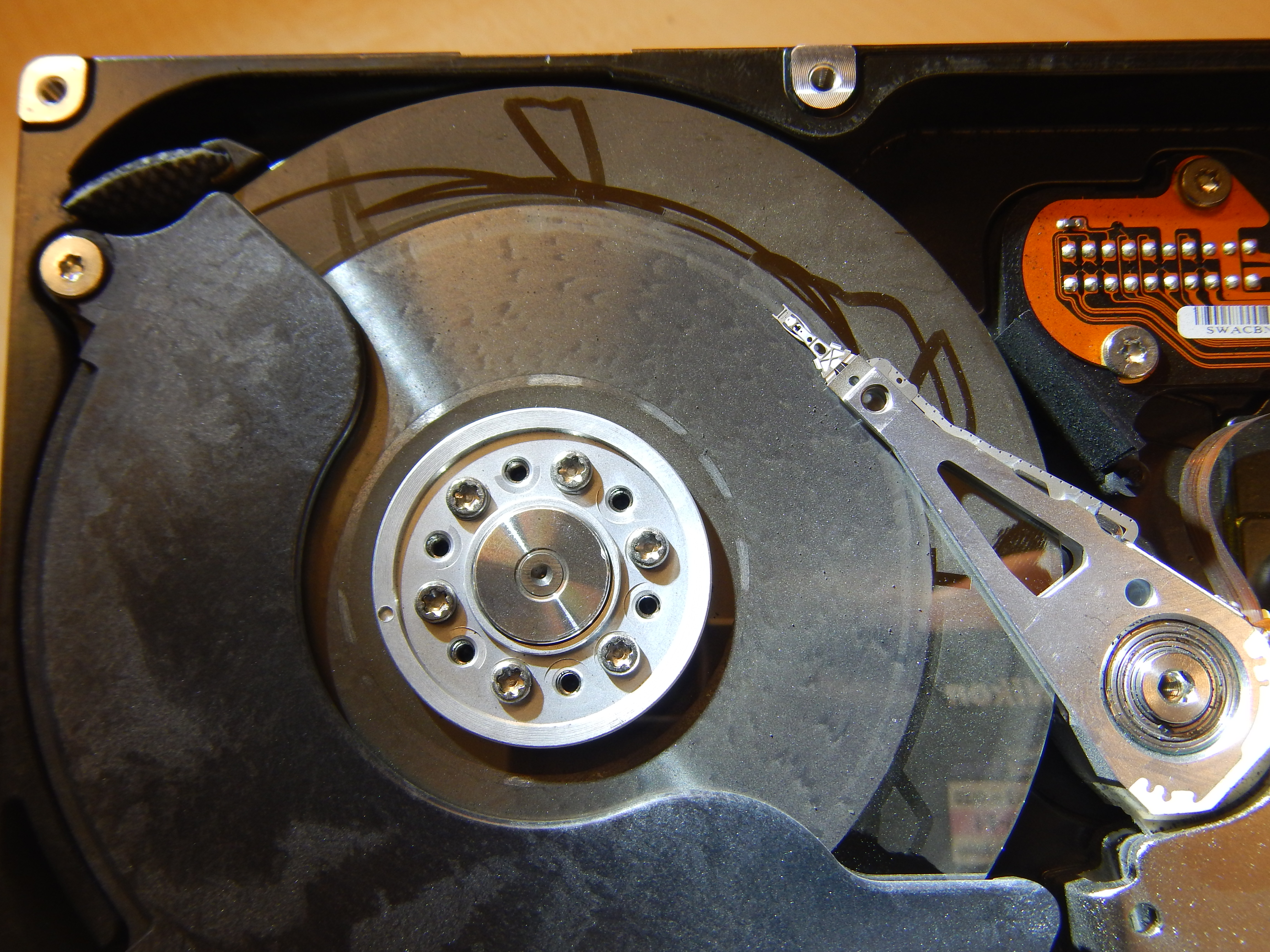 div. series of images from a hard drive with head crash. Just after opening the cover. "dust" is magnetic surface debris feel free to delete the unusables.